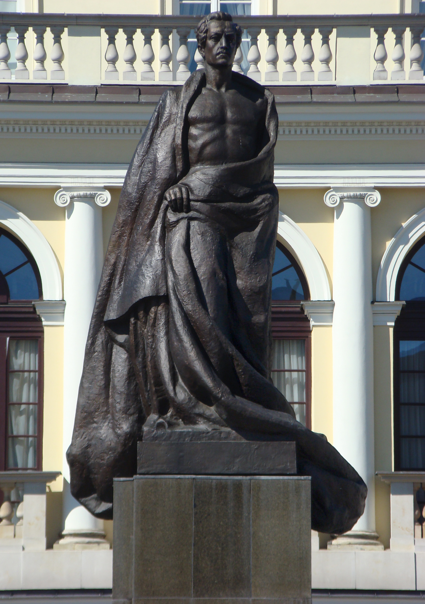 Monument of Juliusz Słowacki, Polish poet